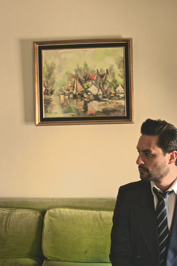 Singer Songwriter Artist